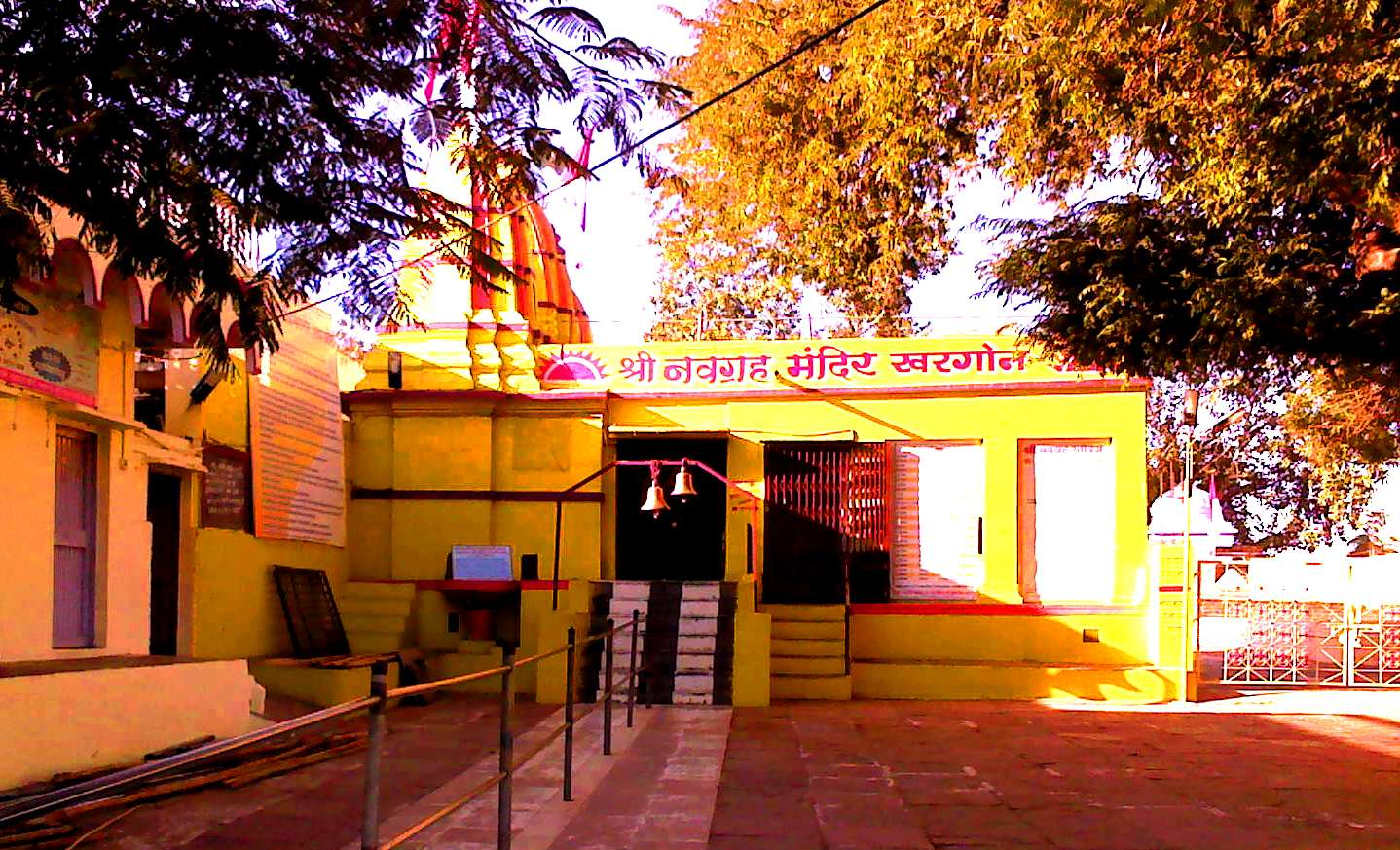 Famous Navagraha temple of Khargone. Devoted to Nine planets and Sun.